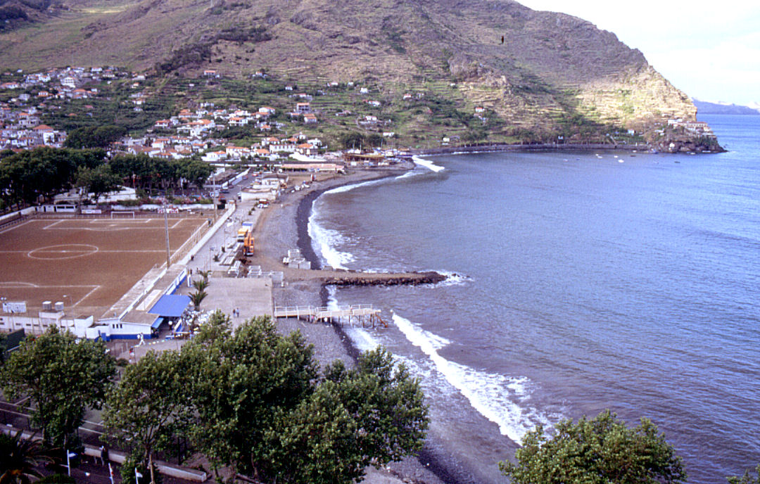 Machico by 1990